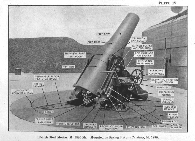 This image is from "The Service of Coast Artillery," Frank T. Hines and Franklin W. Ward, Goodenough & Woglom Co., New York, 1910, following p. 118. The original image has been converted to greyscale, and its brightness and contrast have been boosted.